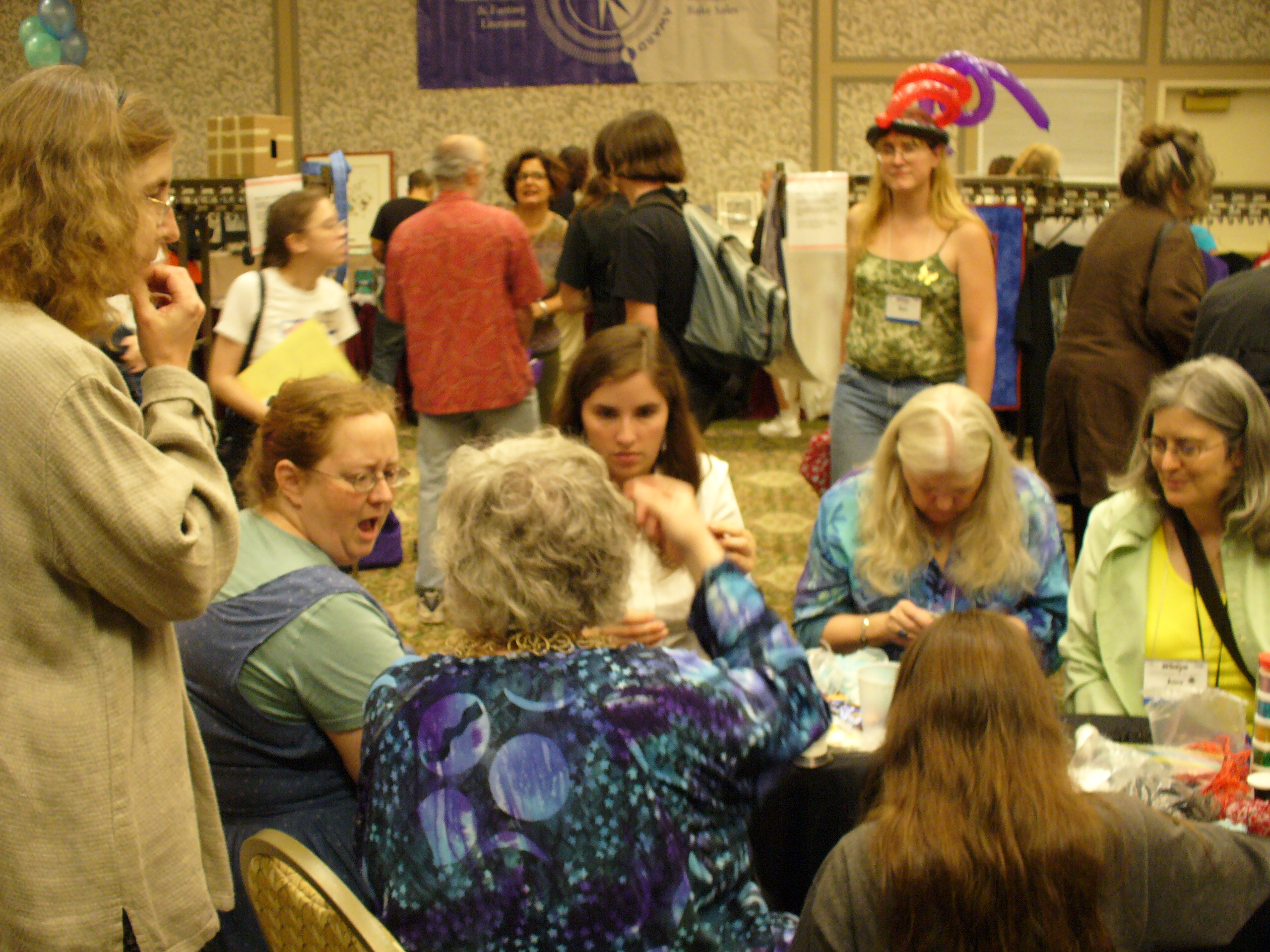 I recognize Lisa Freitag (far left), Kate Yule (next left), and Amy Thompson (far right).